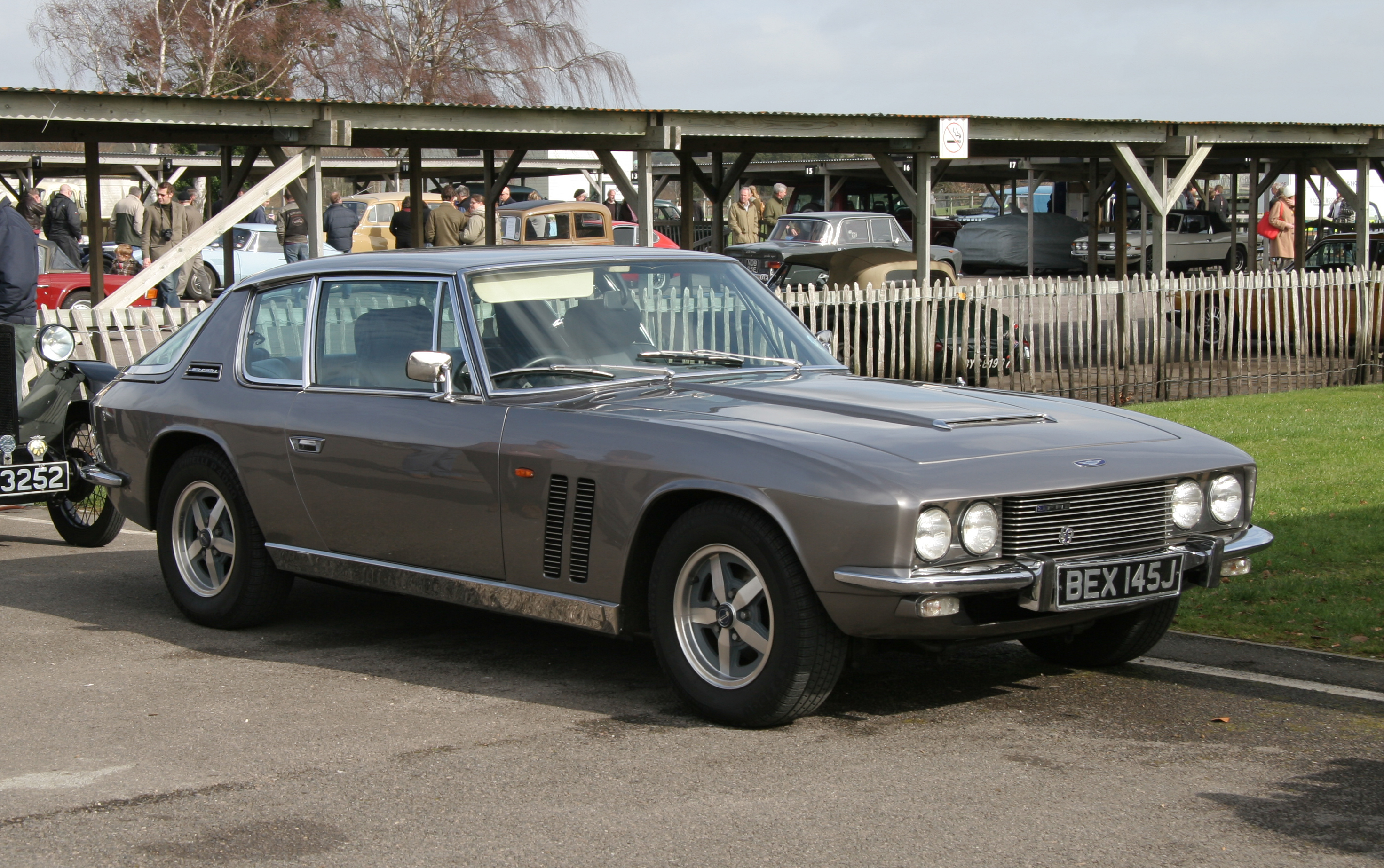 Jensen FF MK II (DVLA) first registered 19 April 1971, 6276 cc